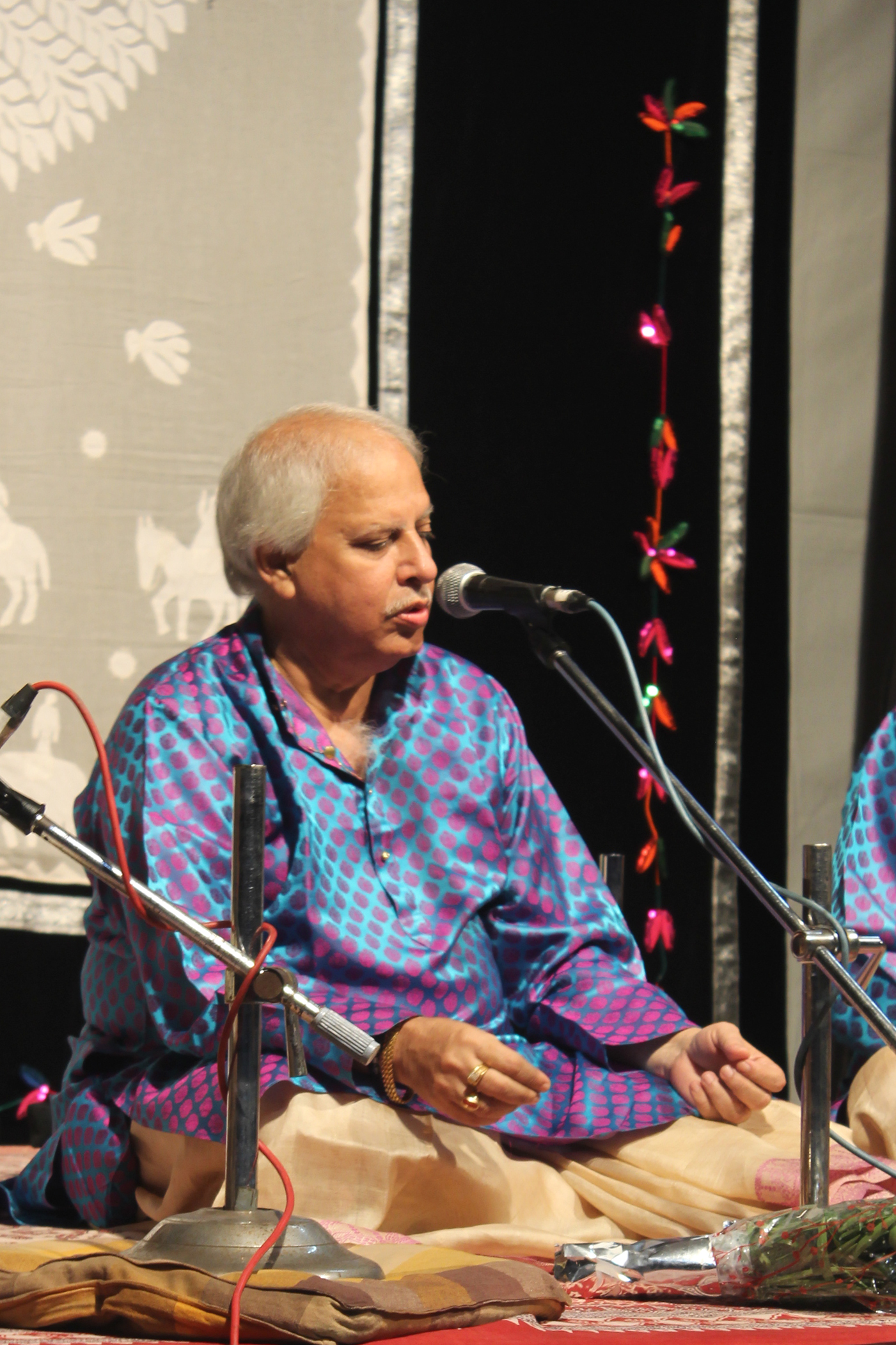 Sajan Mishra performing at Bharat_Bhavan Bhopal (July 2015)